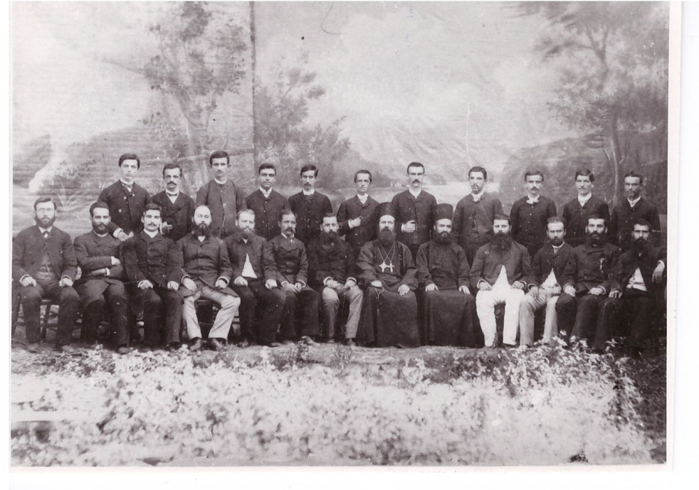 First Graduates and Teachers of the Thessaloniki Bulgarian High School 1886